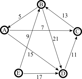 Schulze methode - Cloneproof Schwartz Sequential Dropping (CSSD), step three